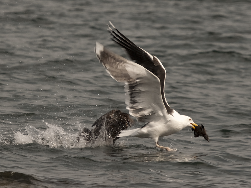 A Great Black-Backed Gull snatches a Common Eider Duckling. The two hen Eiders put up a fight and successfully defended the 3 ducklings before this attack.